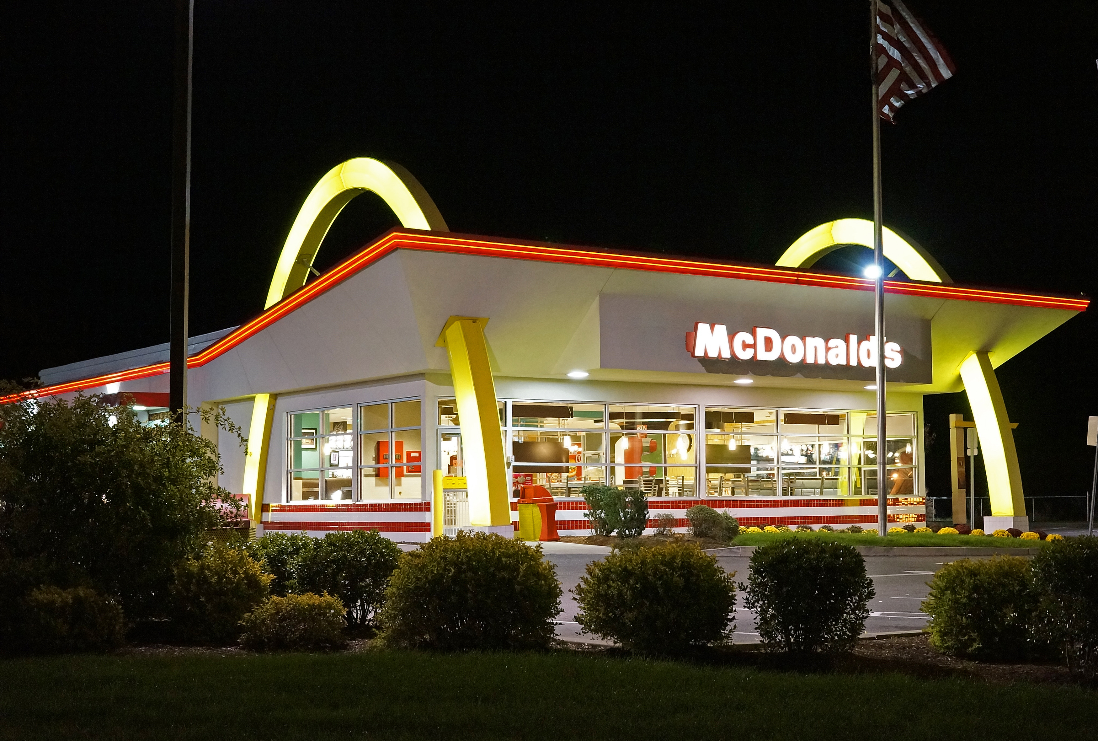 McDonalds Golden Arches Rt.1, Saugus, Massachusetts USA